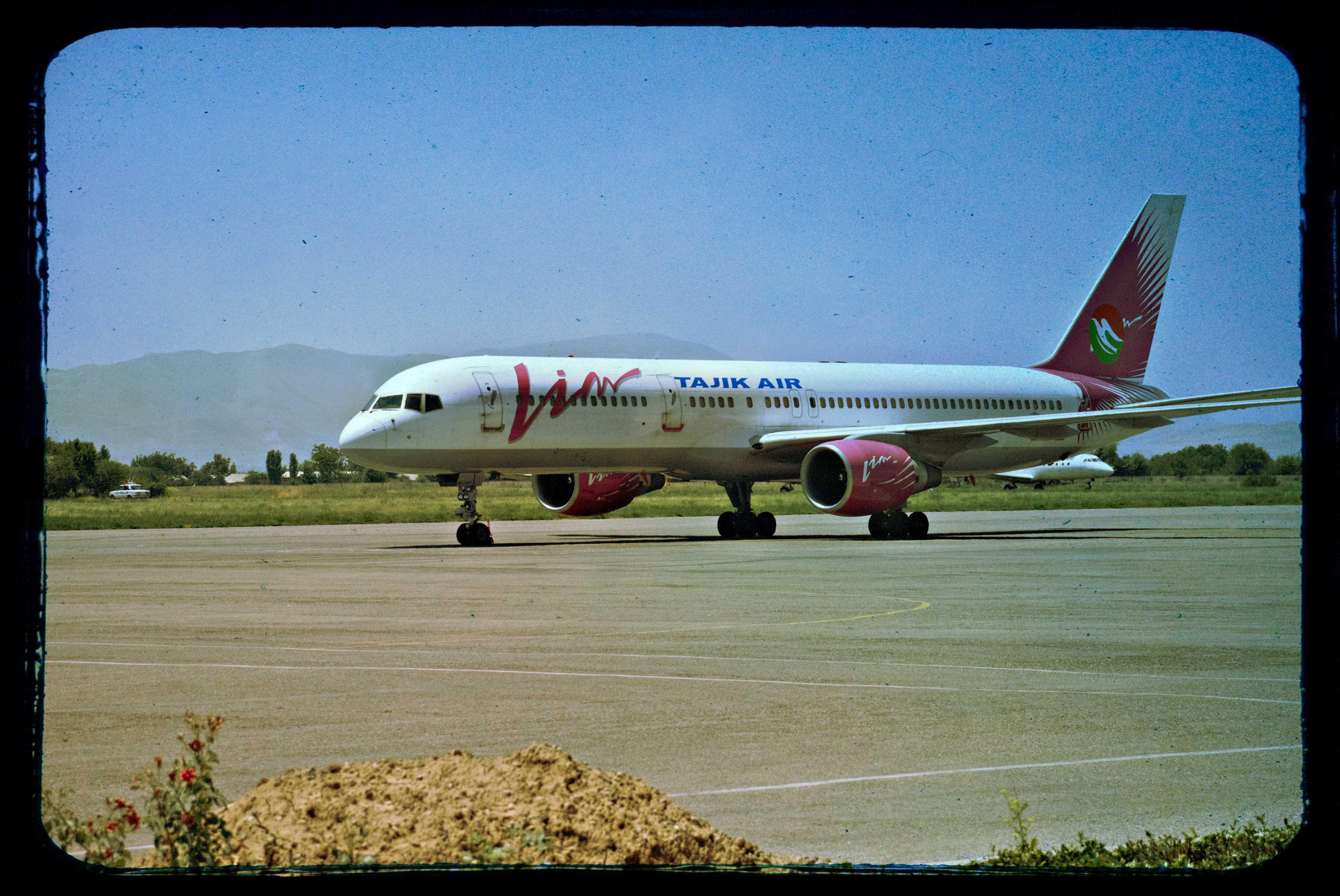 Airplane belonging to Tajik Air sitting on an airfield, presumably Dushanbe Airport.